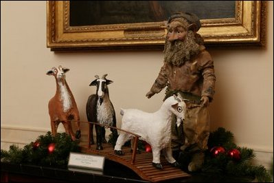 The White House 2003 Christmas decoration using the theme Three Billy Goats Gruff from a famous traditional fairy tale of Norwegian origin.